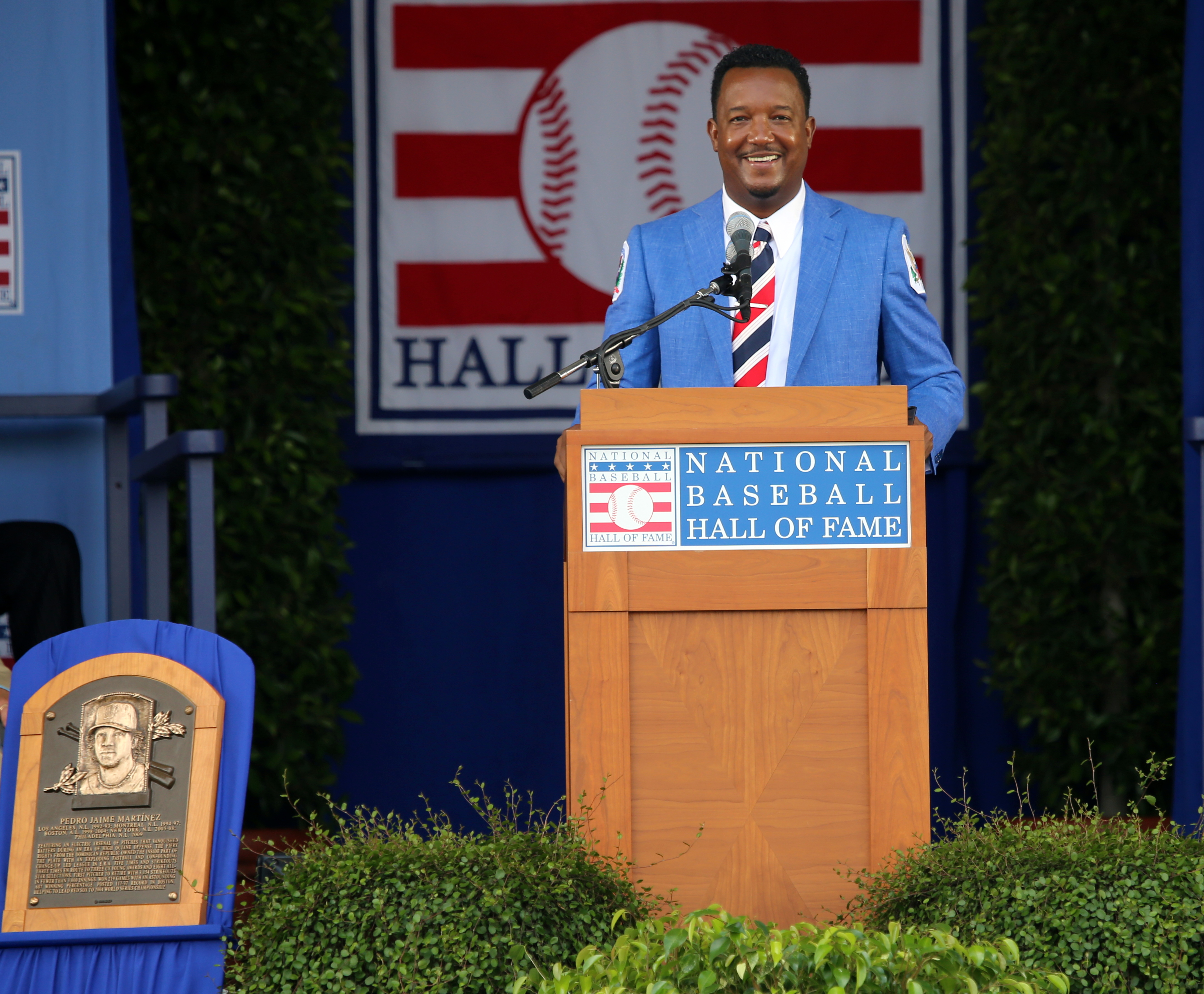 Pedro Martinez addresses the crowd.